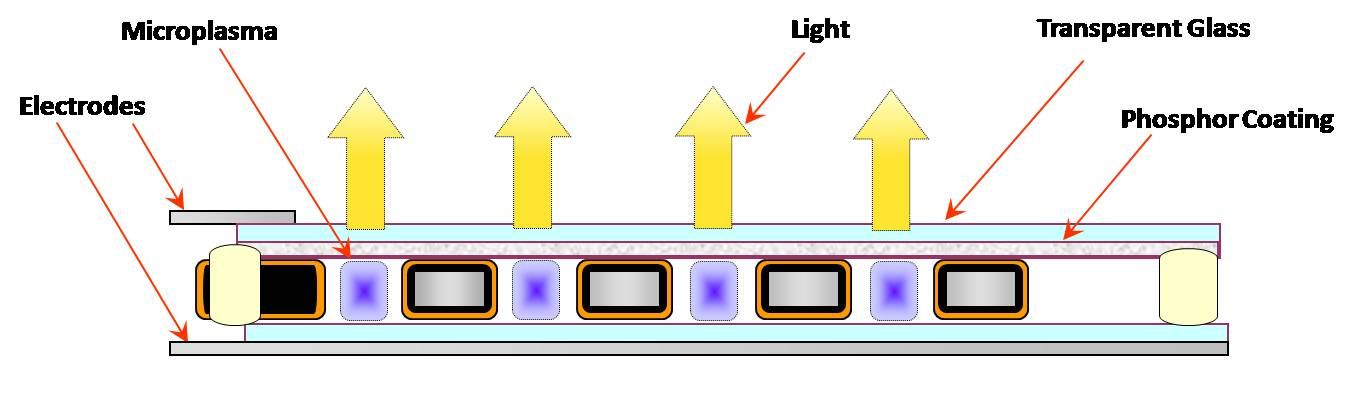 Eden and Park schematic for possible microplasma illumination.